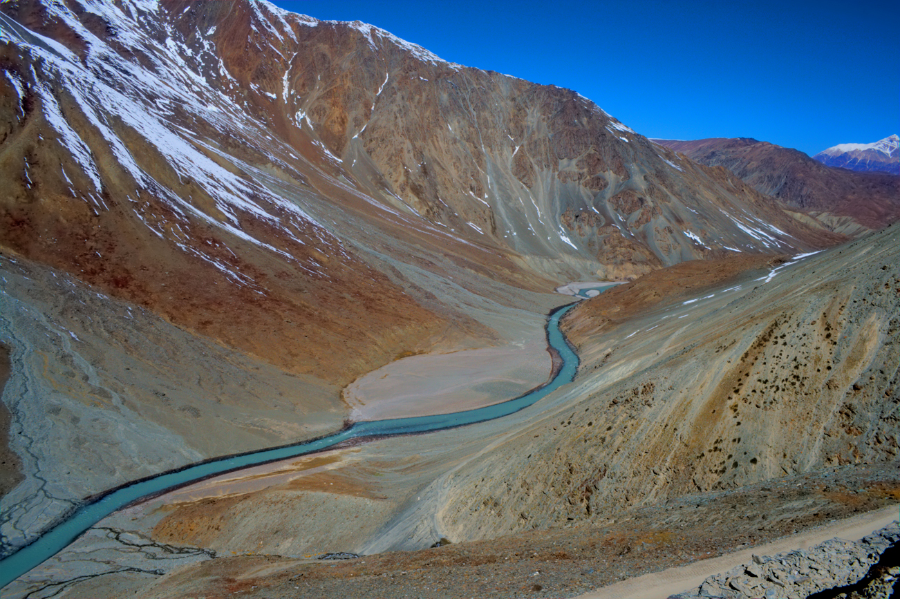 Chandra River near the Kanzum pass, Spiti.